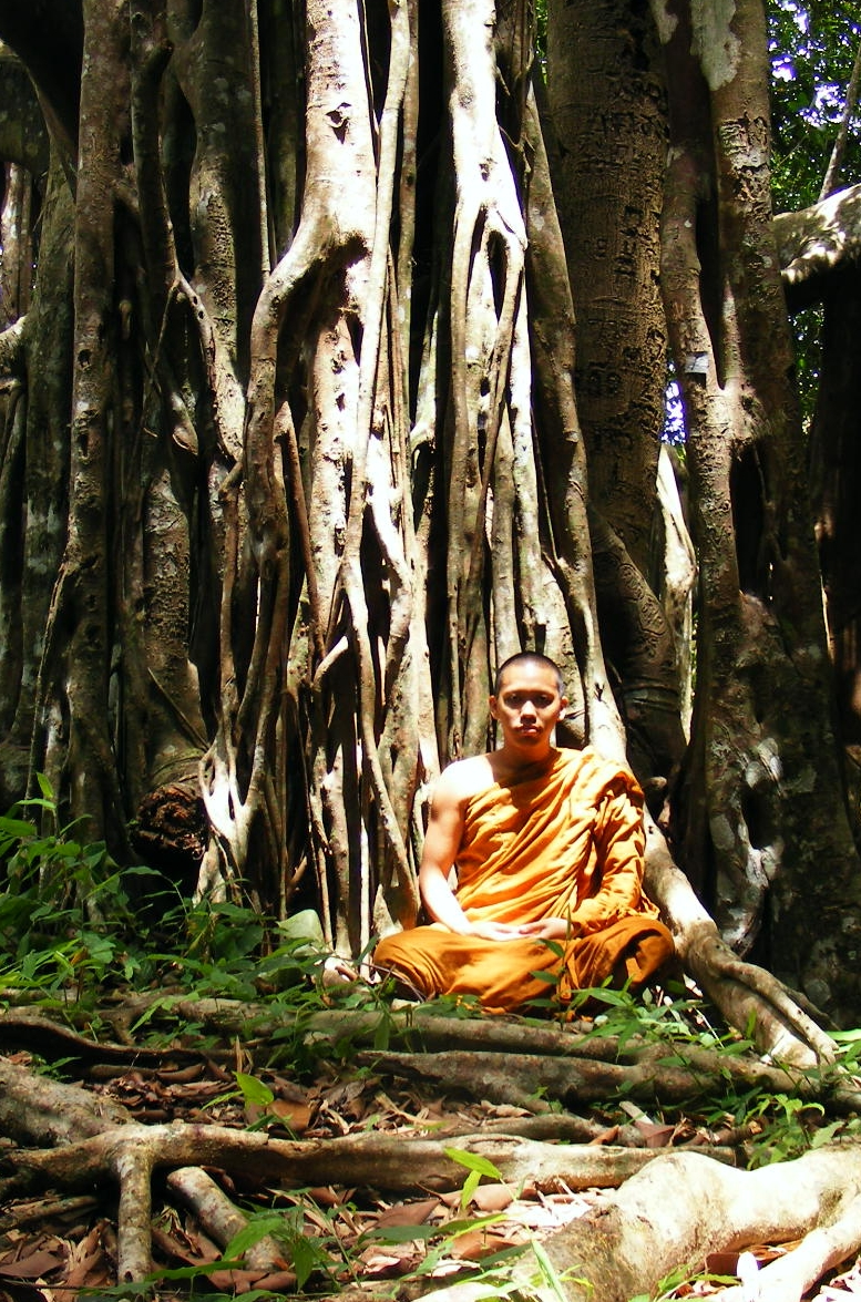 Buddhist monks in Ramkhamhaeng National Park Location: Ramkhamhaeng National Park Sukhothai Province Thailand.